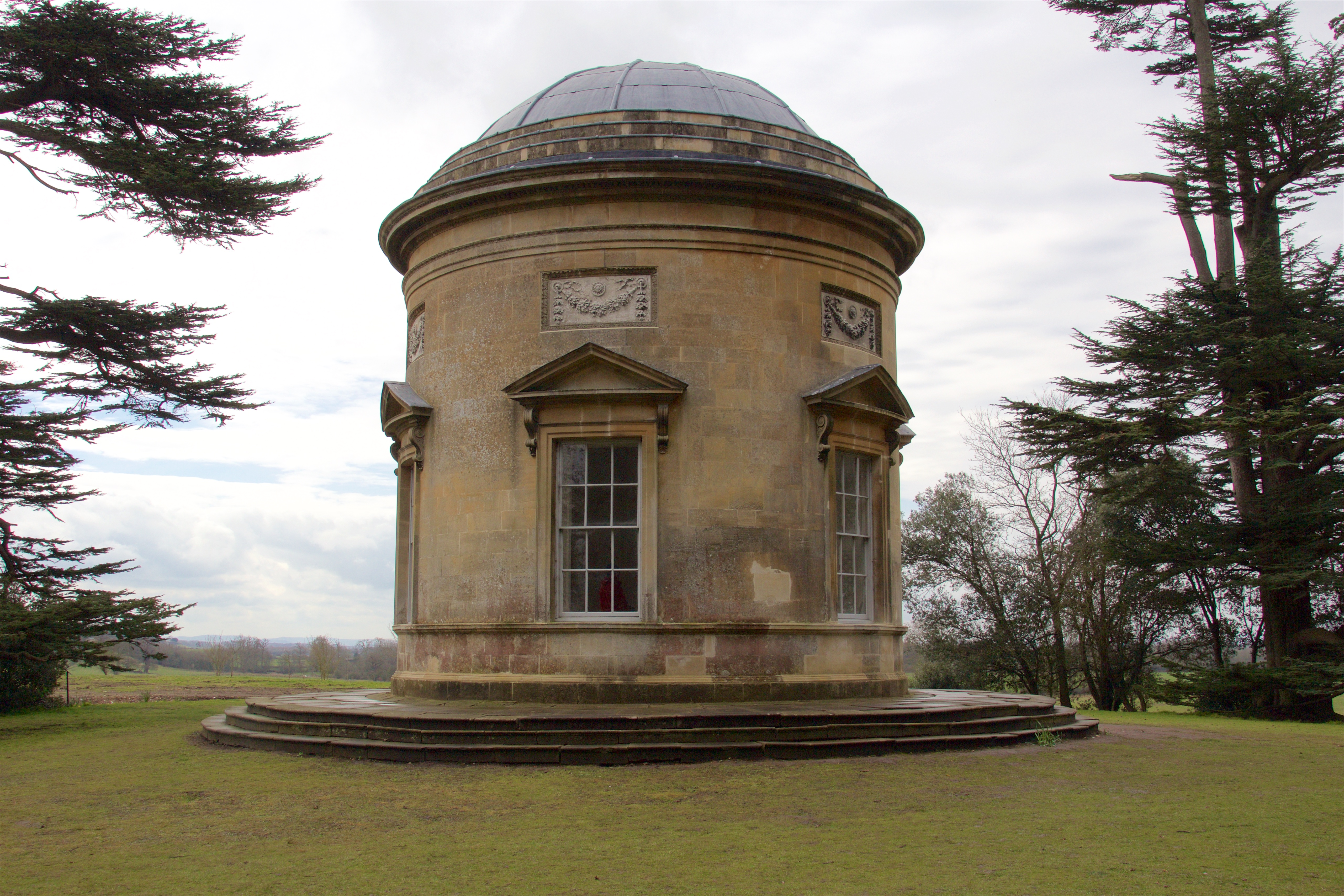 Rotundra at Croome Court / Croome Park in 2016